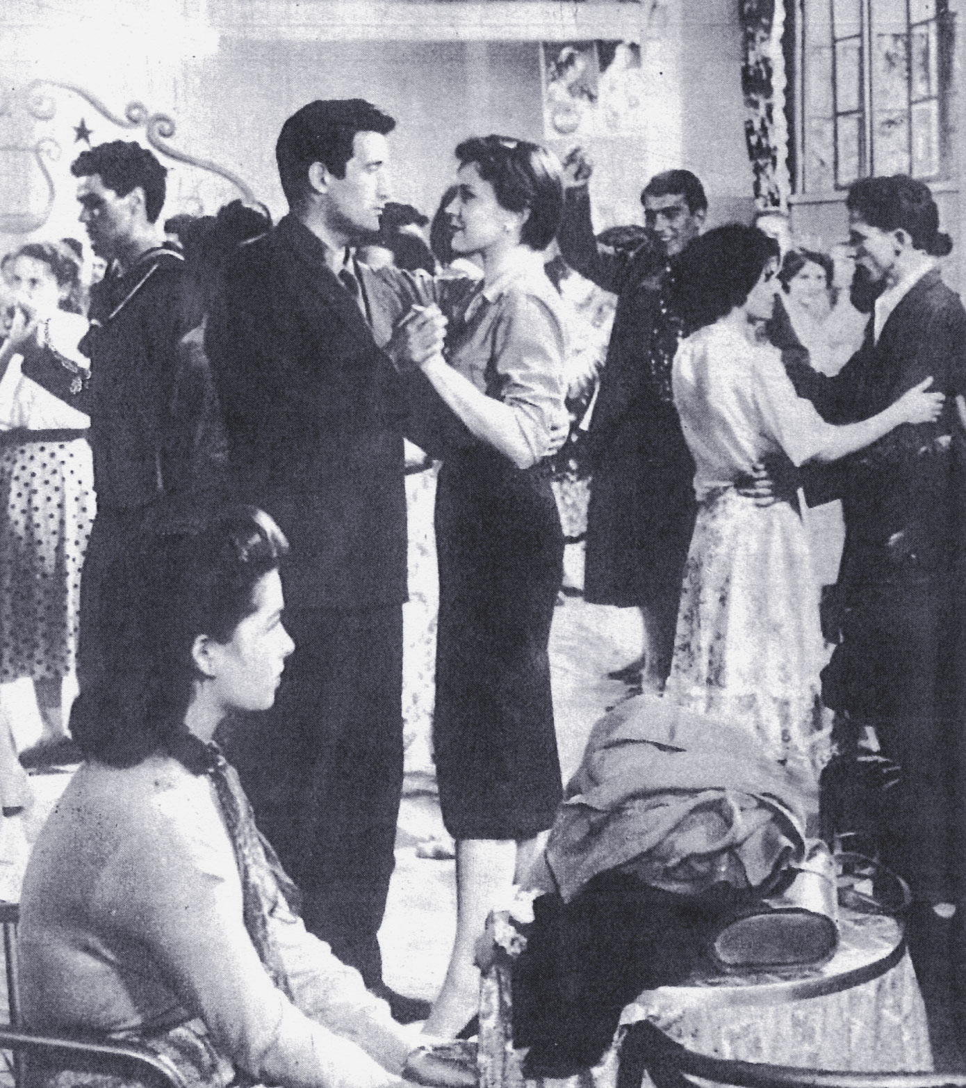 La scena della "balera" ne "il sole negli occhi" (Pietrangeli 1953)